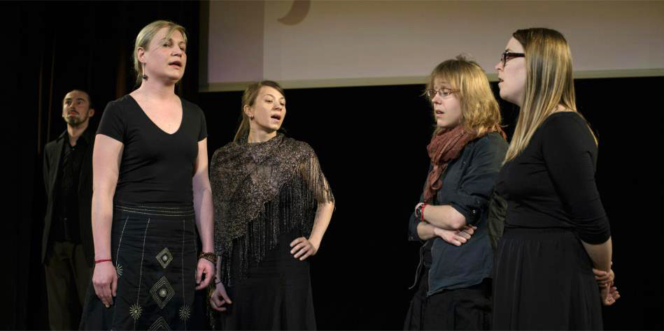 Vocal ensemble Songs Recovered- participants of the Old Tradition Competition, May 2013